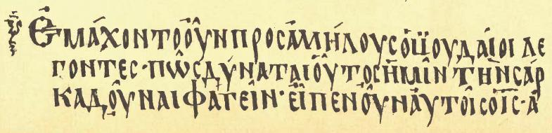 fragment on the codex (John 6:52-53) in Scrivener's facsimile edition (1894)